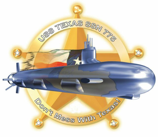 USS Texas (SSN-775) Crest